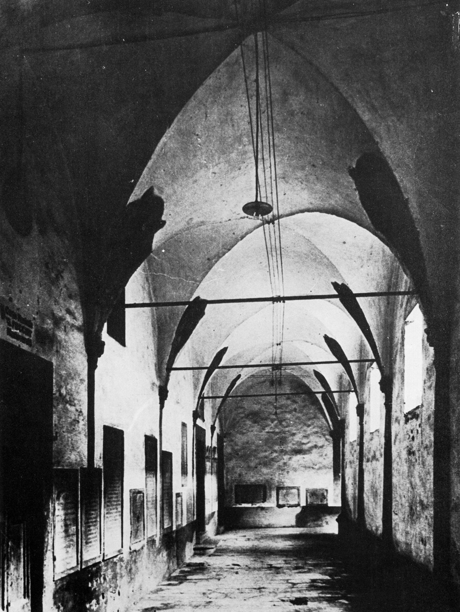 The Cennano Cloister in Montevarchi before to recover its original open structure